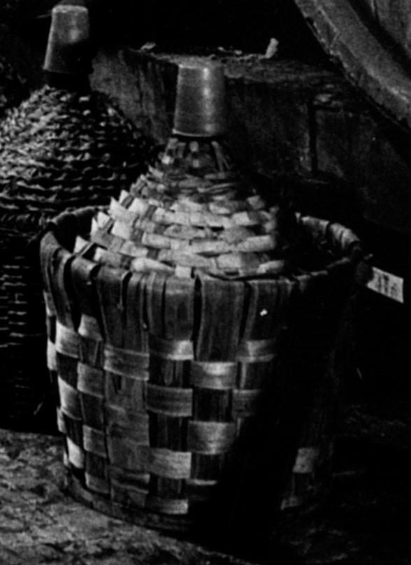 Tuscan demijohn